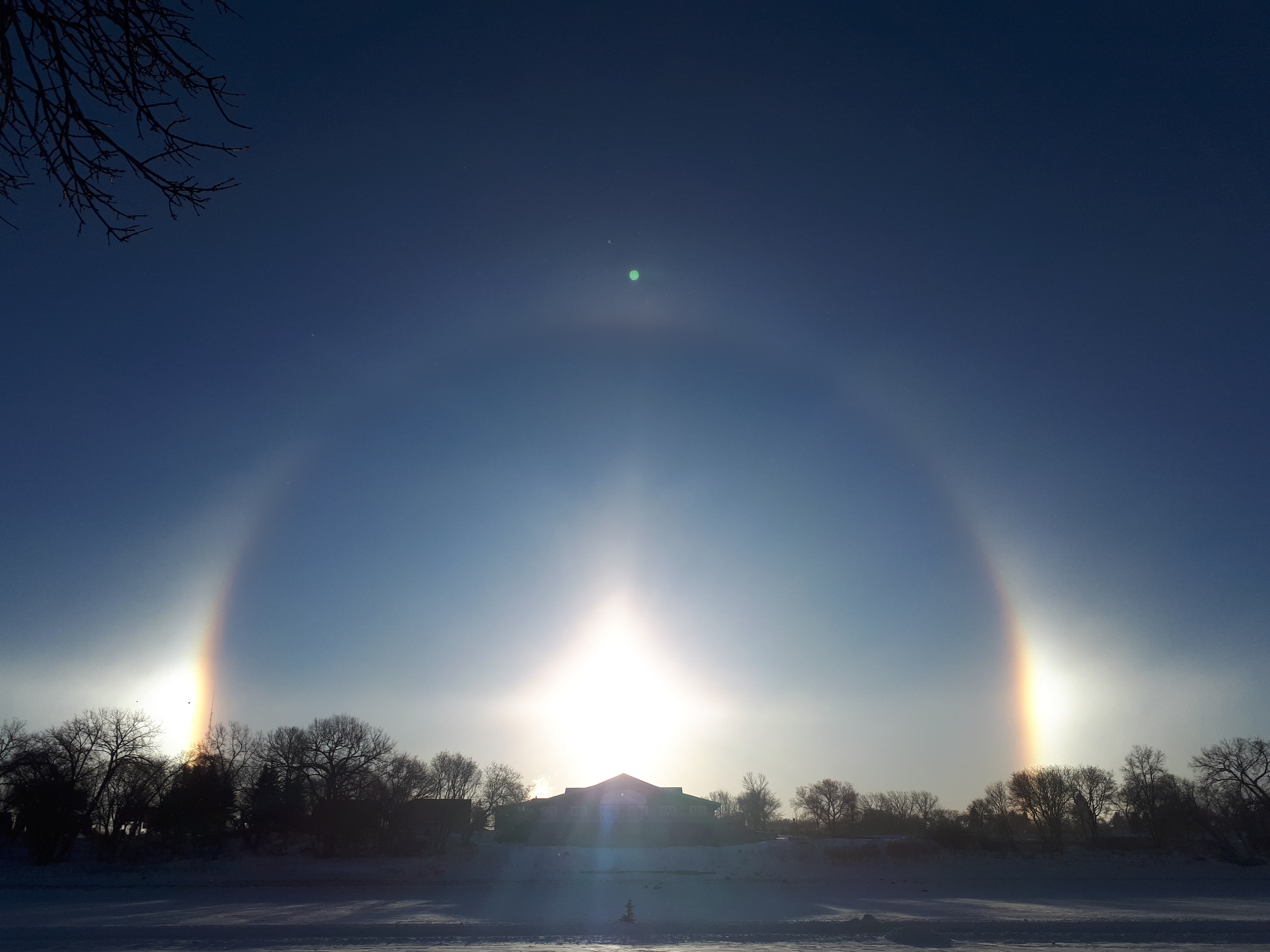 Sun dog and 22° halo over the Winnipeg Rowing Club in Winnipeg, Manitoba, Canada.